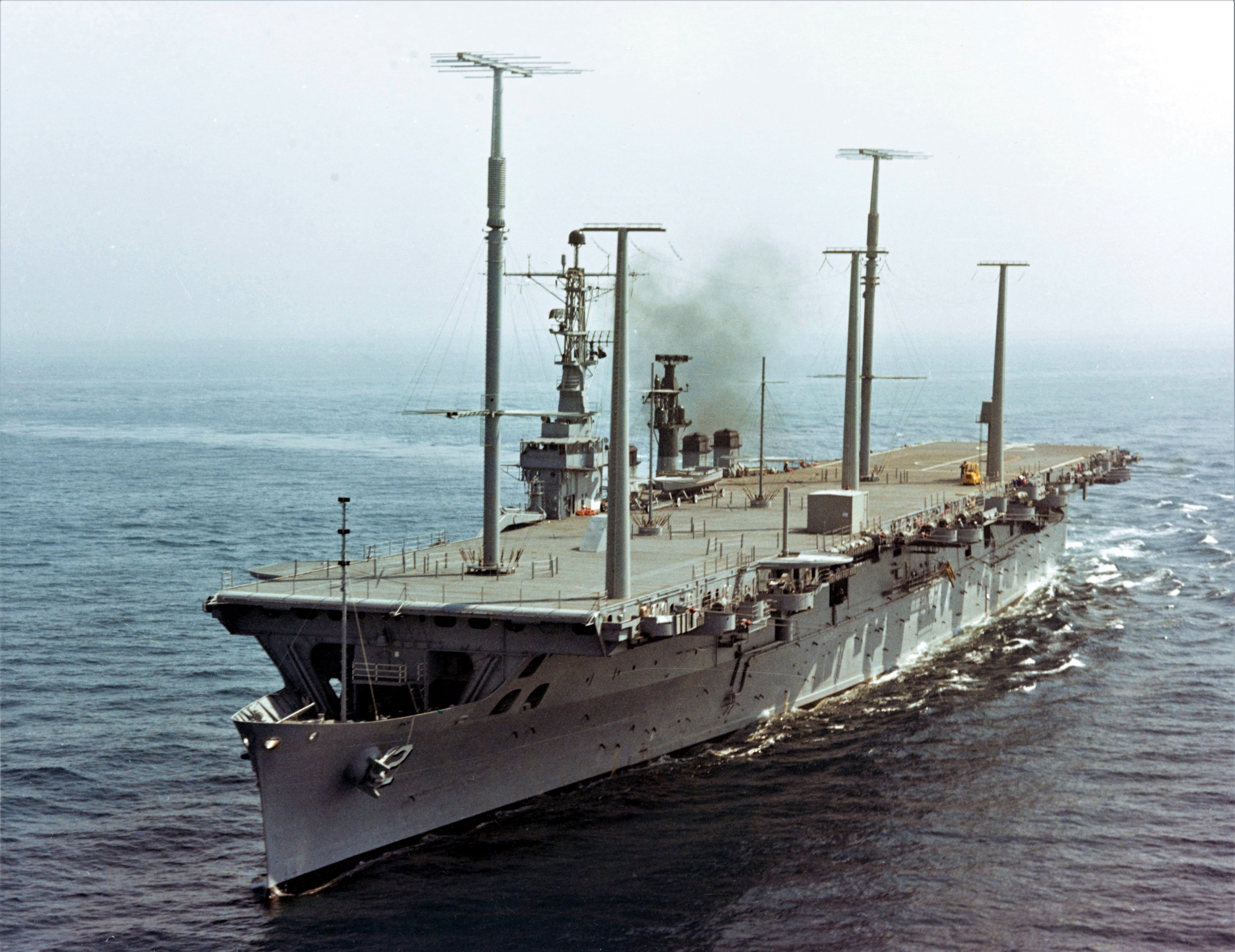 The U.S. Navy command ship USS Wright (CC-2) underway off the southern California coast, 25 September 1963, shortly after conversion to a command ship. Note her extensive array of communications antennas and their associated masts.